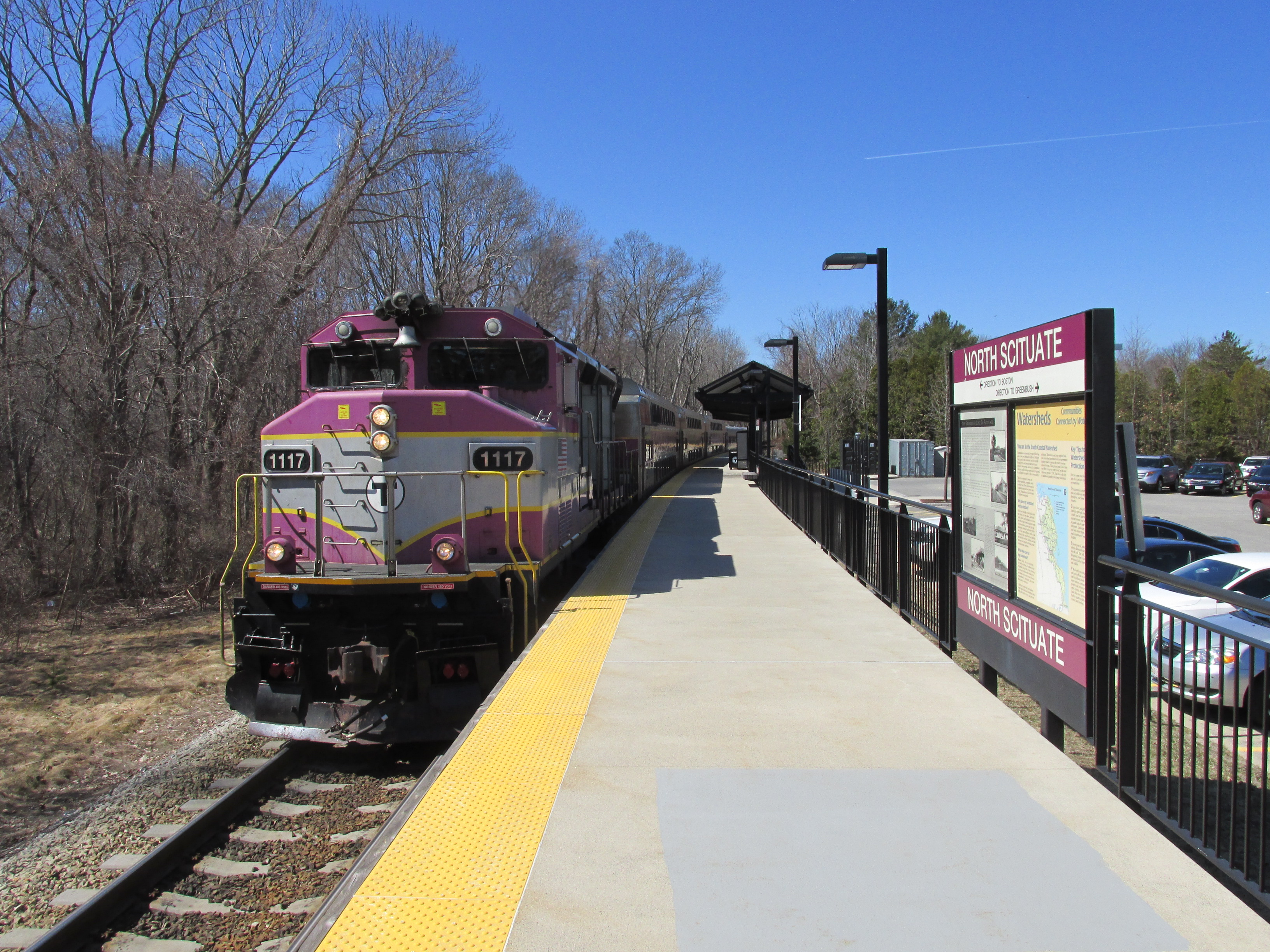 Outbound train entering North Scituate MBTA station, North Scituate Massachusetts - 2013